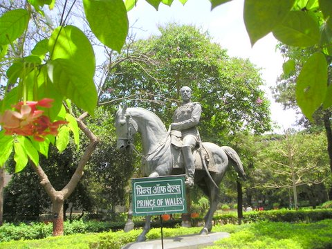 This statue is installed long back, at The 'Rani baugh' gardens, Buculla,.